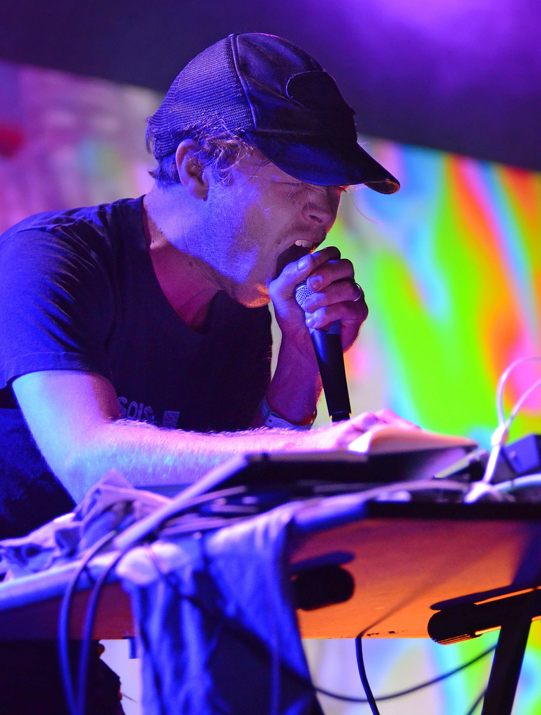 Eric Copeland during a live show at ATP 2011, which was curated by Animal Collective